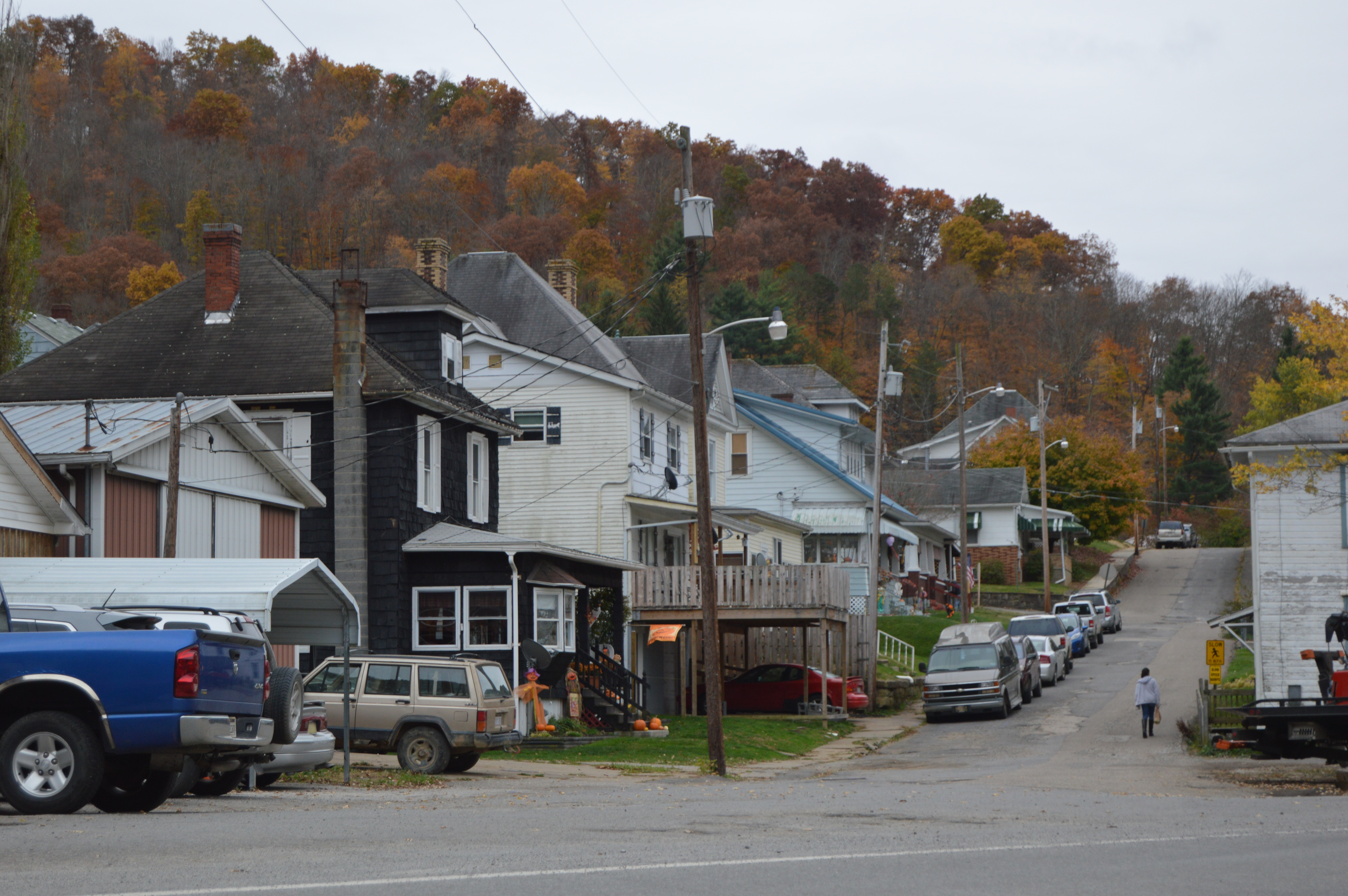 Looking south on Cleveland Street from the U.S. Route 250 intersection in Hundred, West Virginia, United States.